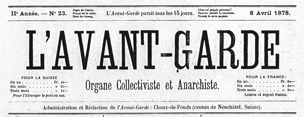 L'Avant-Garde was a periodical published from June 2, 1877 until December 2, 1878 in La Chaux-de-Fonds. Paul Brousse was the author of most of the articles.